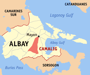 Locator map of Camalig in Albay, Philippines.